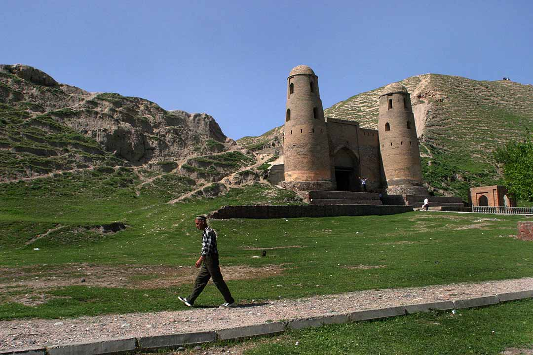 I shot and posted a similar picture a couple of years ago. This place is just too fascinating to not do it again when there! Nearby this are a mosque, two madrassas, and other buldings built between the 16th and 18th centuries.